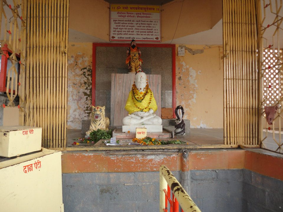 Chandeo Samadhi facing the Godavari river